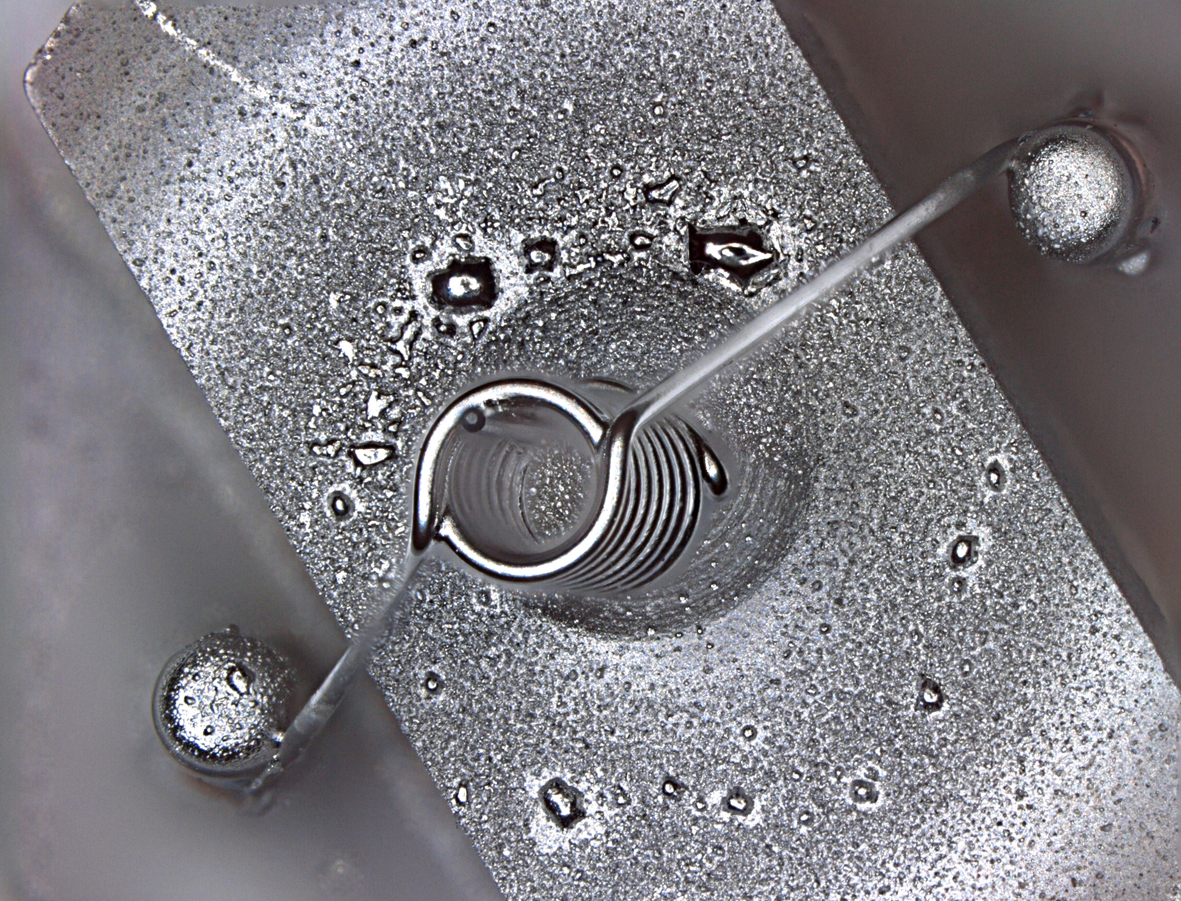 used empty liquid metal ion source